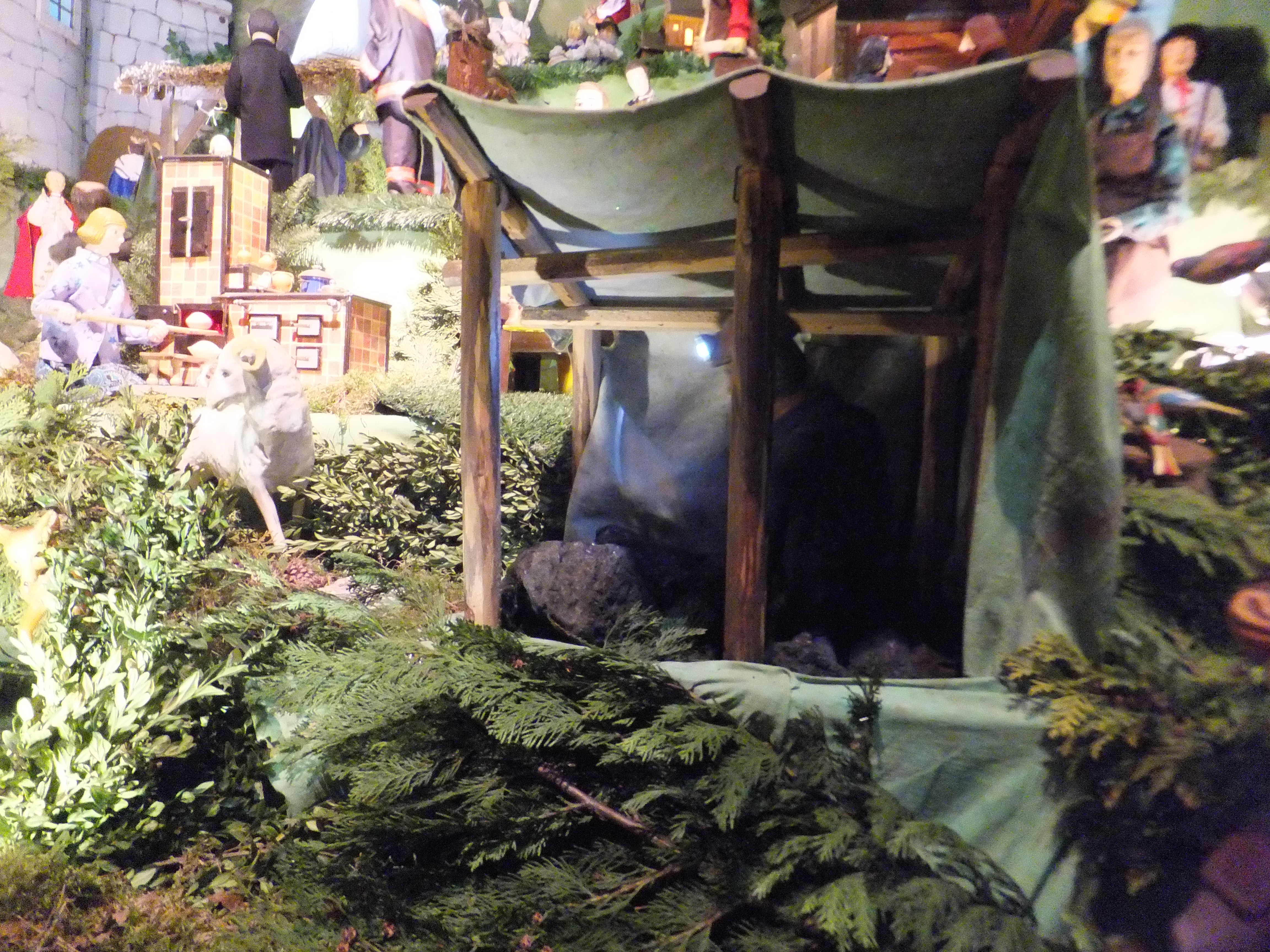 Moving crib in Saint Bartholomew church in Bieruń (Poland). Moving crib is built every year since 1955. It consists of more than 100 figures (most of the figures moving).